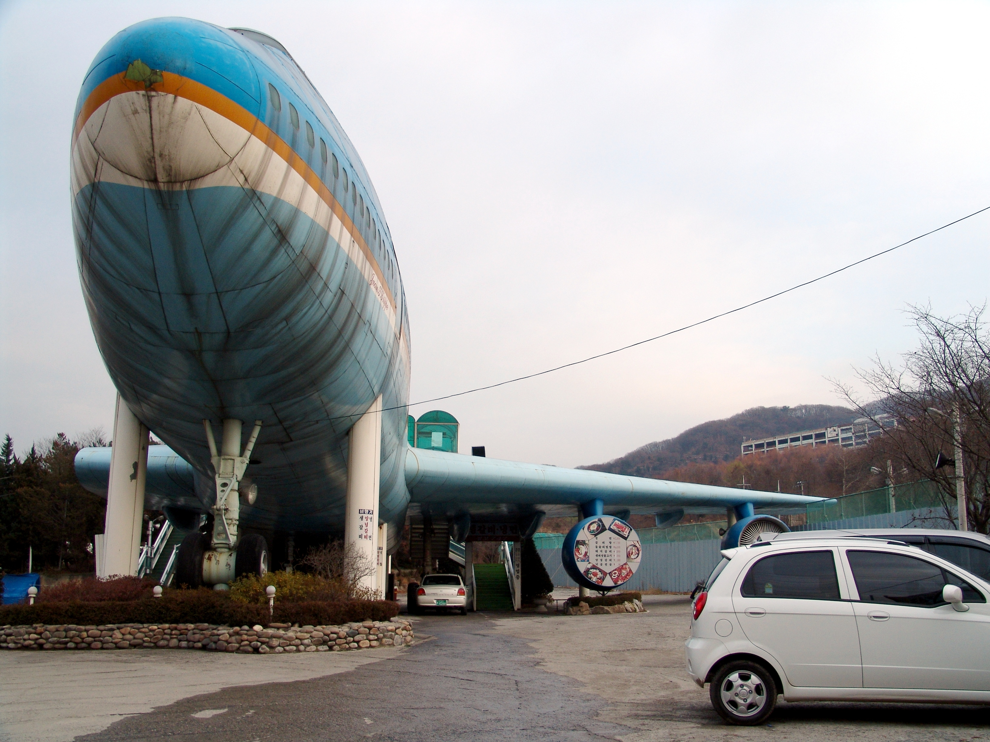 The second Boeing 747 ever built is now a restaurant in Namyangju-Si, South Korea.